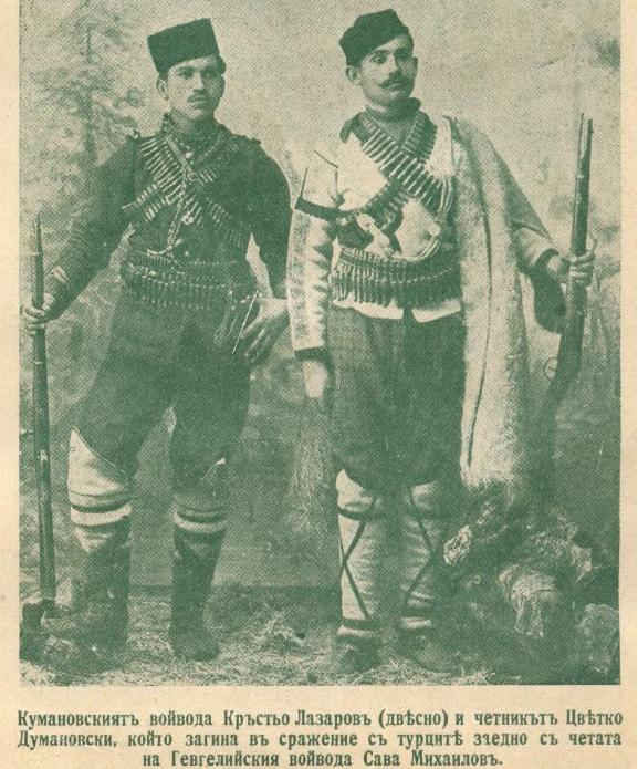 Kresto Lazarov and his chetnik Cviatko Dumanovski